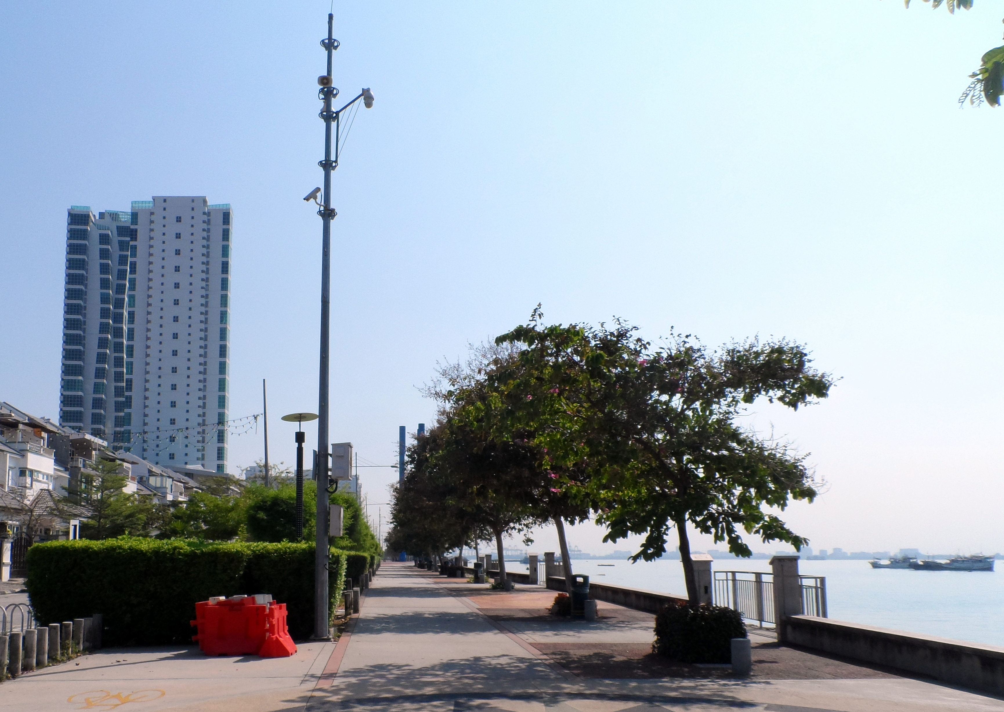 The Maritime (left), at Karpal Singh Drive within the city of George Town in Penang, Malaysia consists of two SOHO skyscrapers.